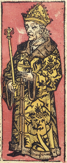 Wood cut from the Nuremberg Chronicle (Latin copy in Sao Paulo)